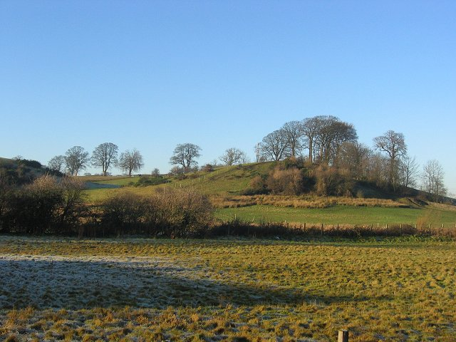 Site of the Antonine Wall. The Antonine wall ran down this spur.